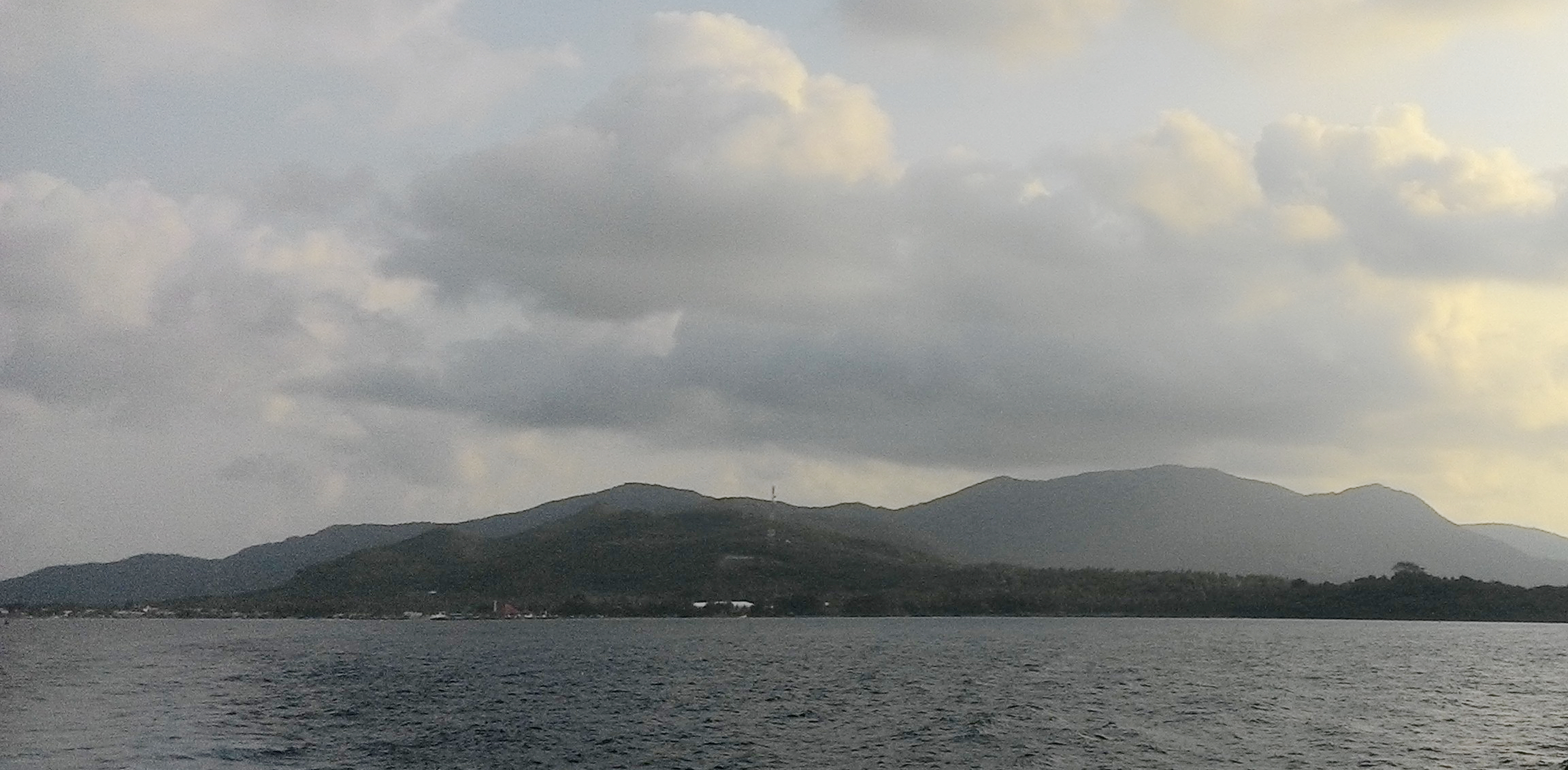 Karimunjawa Island in the morning.